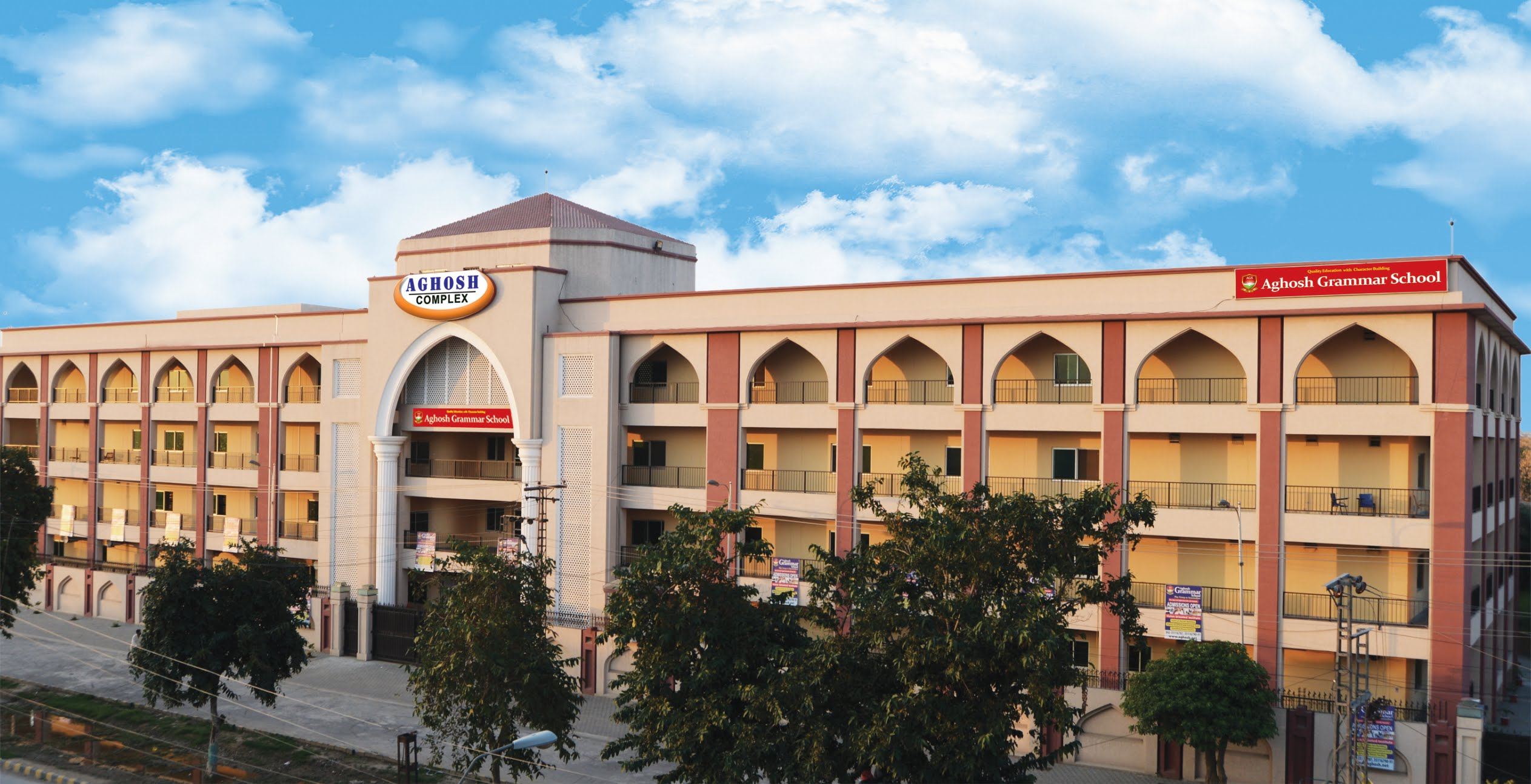 Aghosh Complex, Township Lahore Licensing Policy about Wikipedia This is to clarify that all contents and images of this website can be used with reference of this website on Wikipedia under the free license: Creative Commons Attribution-Share Alike 4.0 International.